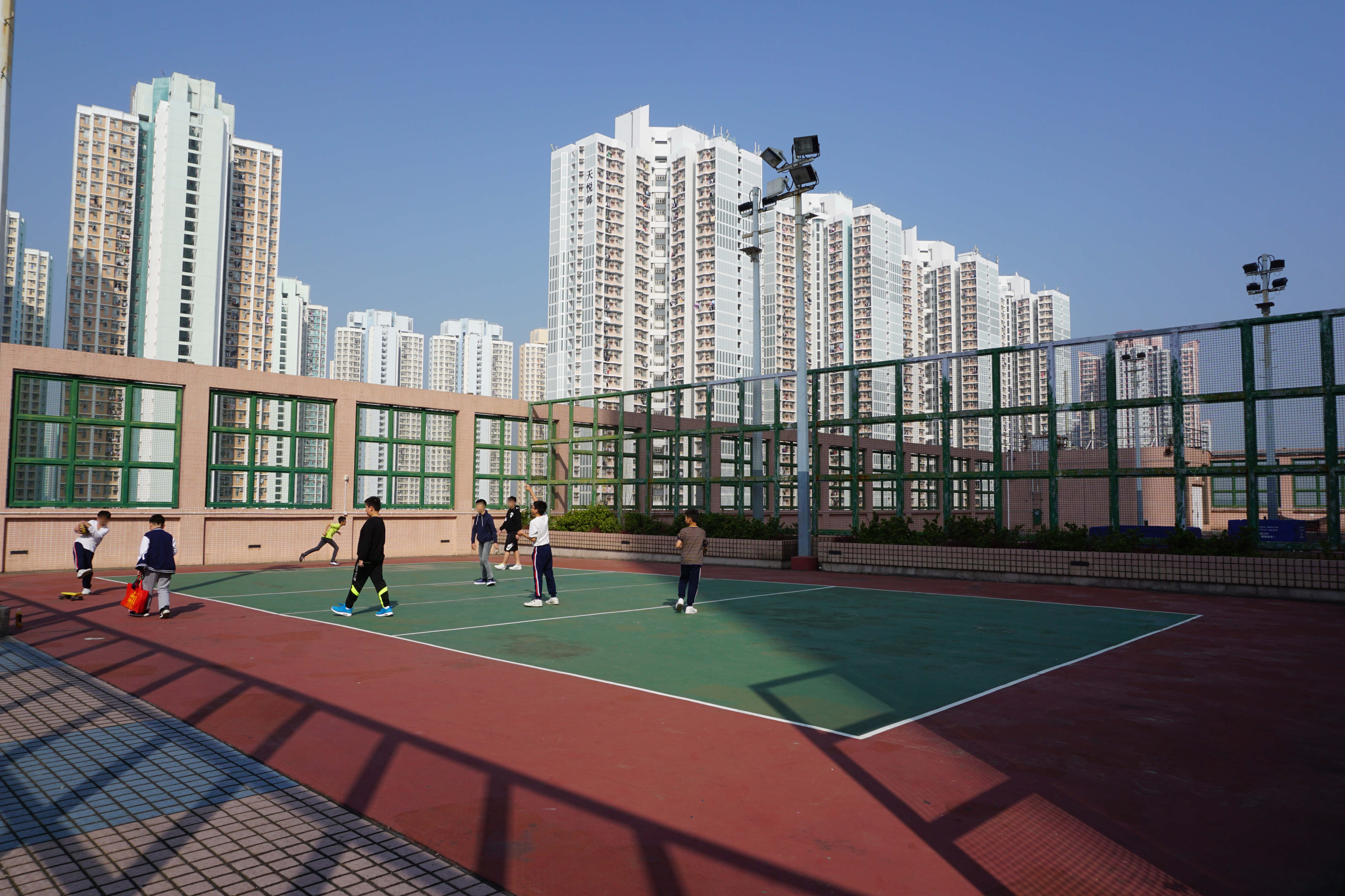 Tin Chung Court in Tin Shui Wai, Hong Kong.